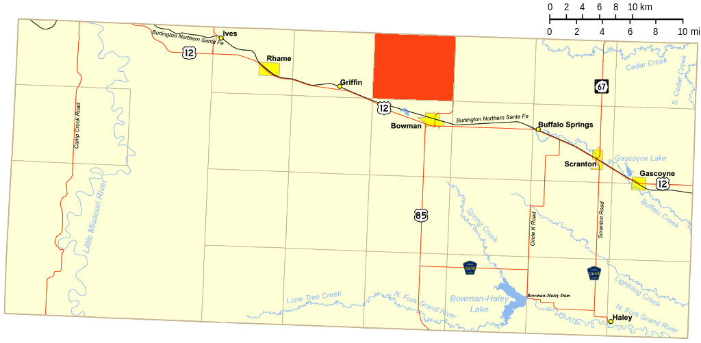 Map of Bowman County, ND, with Star Township highlighted